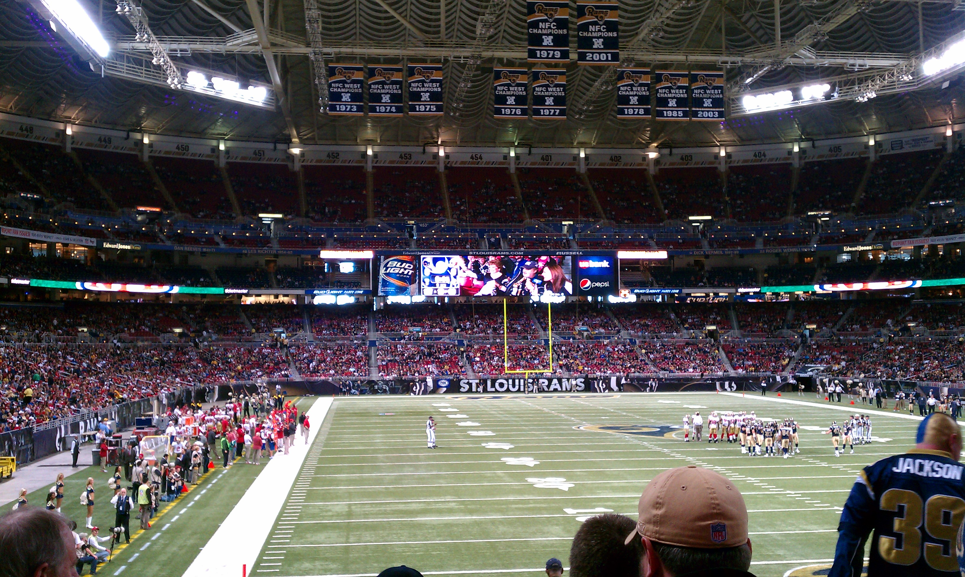 Taken 1/1/2012